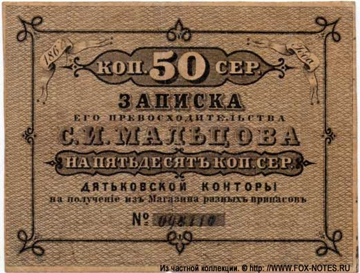 Maltsov banktone of 50 kopeck, 2nd edition, produced in 1744